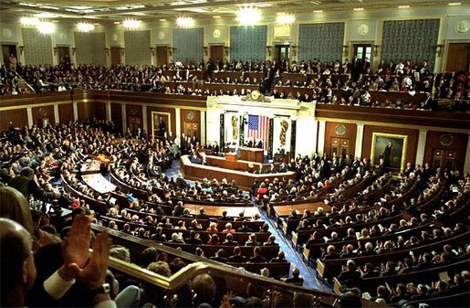 President George W. Bush delivers his State of the Union address to a joint session of the United States Congress in the chamber of the House of Representatives at the United States Capitol on 28 January 2003.